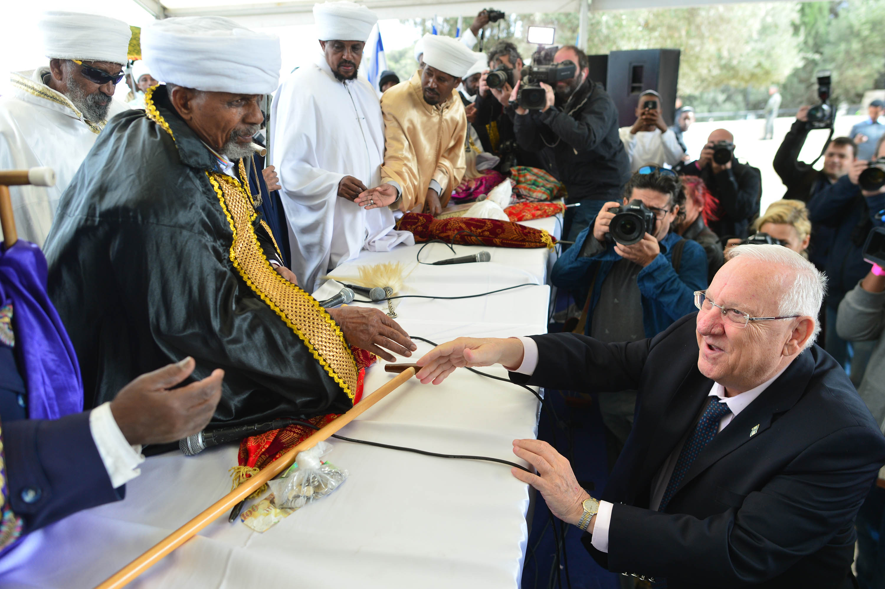 President of the State of Israel, Reuven Rivlin, at the mass prayer service marking the Sigd holiday, the main celebration of the Ethiopian community in Israel. Wednesday, November 30, 2016. Photo Credit: Kobi Gideon / GPO.